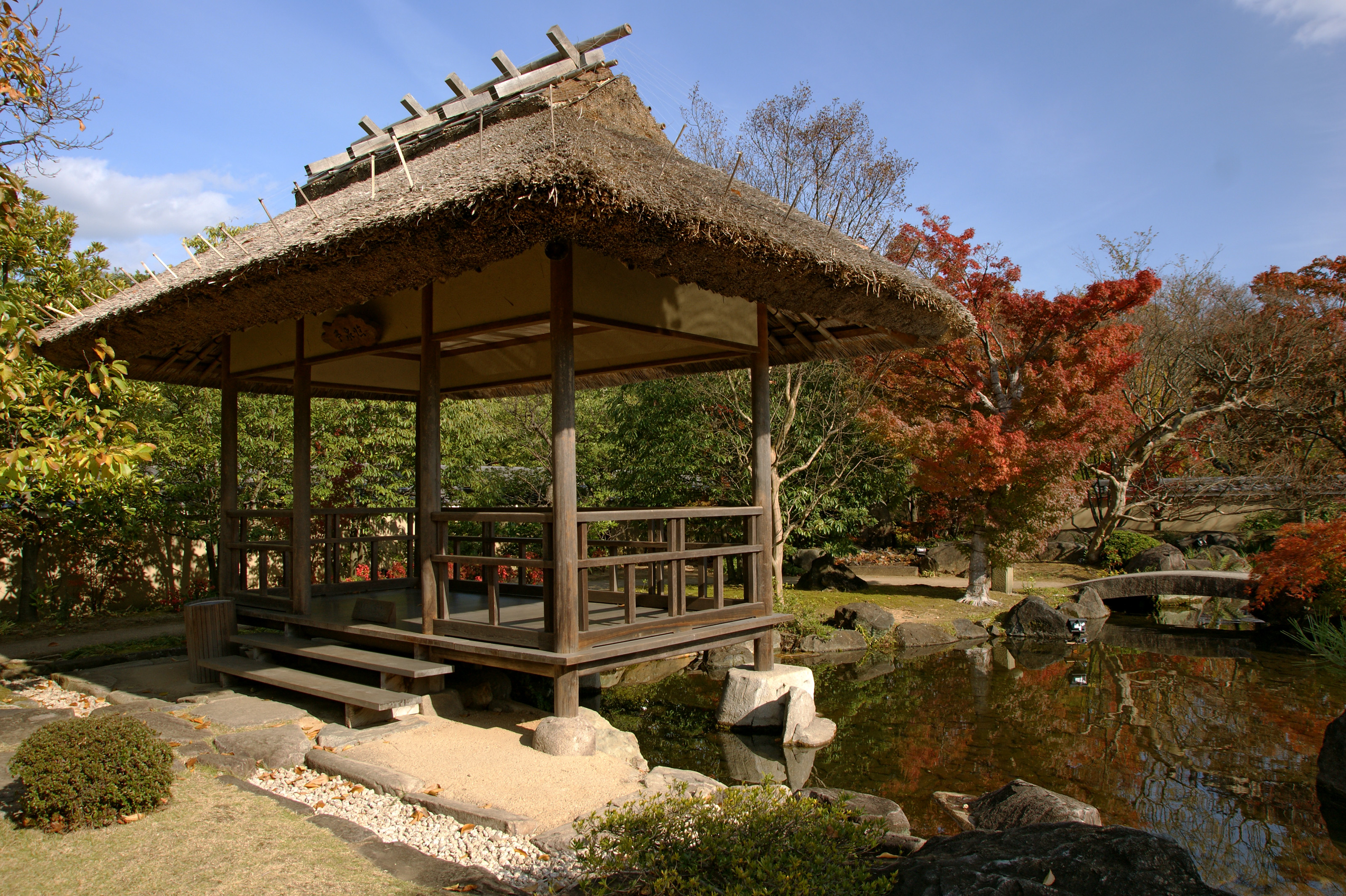 Pavilion in Koukoen, Himeji, Hyogo prefecture, Japan